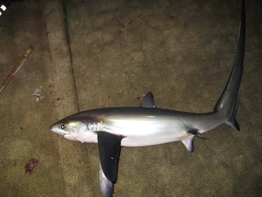 Pelagic thresher shark (Alopias pelagicus) caught by longline.